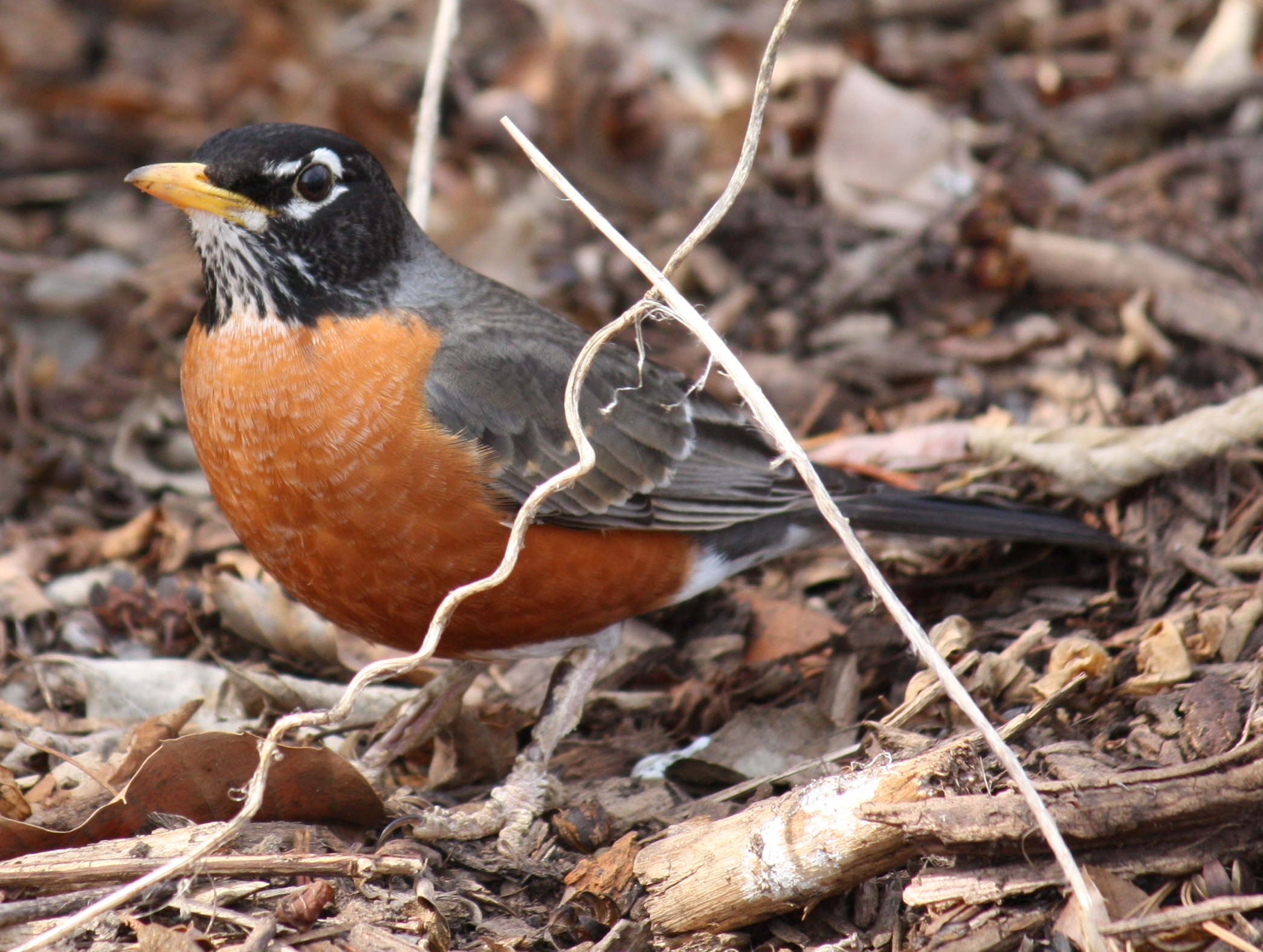 American Robin Turdus migratorius. Photo taken in Louisville Kentucky.